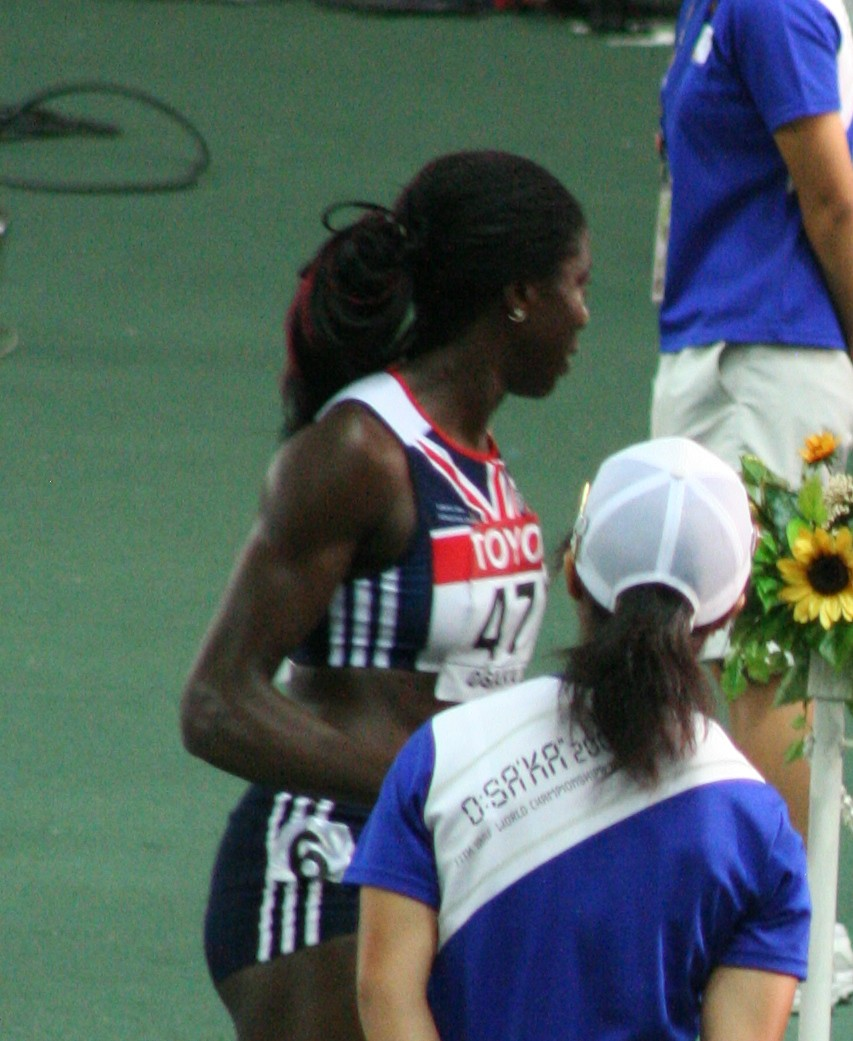 World Athletics Championships 2007 in Osaka - Women's 400 metres winner Christine Ohuruogu